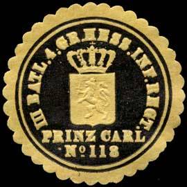 Sealing stamp Title: III. Batallion 4. Gr. Hessisches Infanterie Regiment Prinz Carl No. 118 Description: Place: Worms size: 4 cm